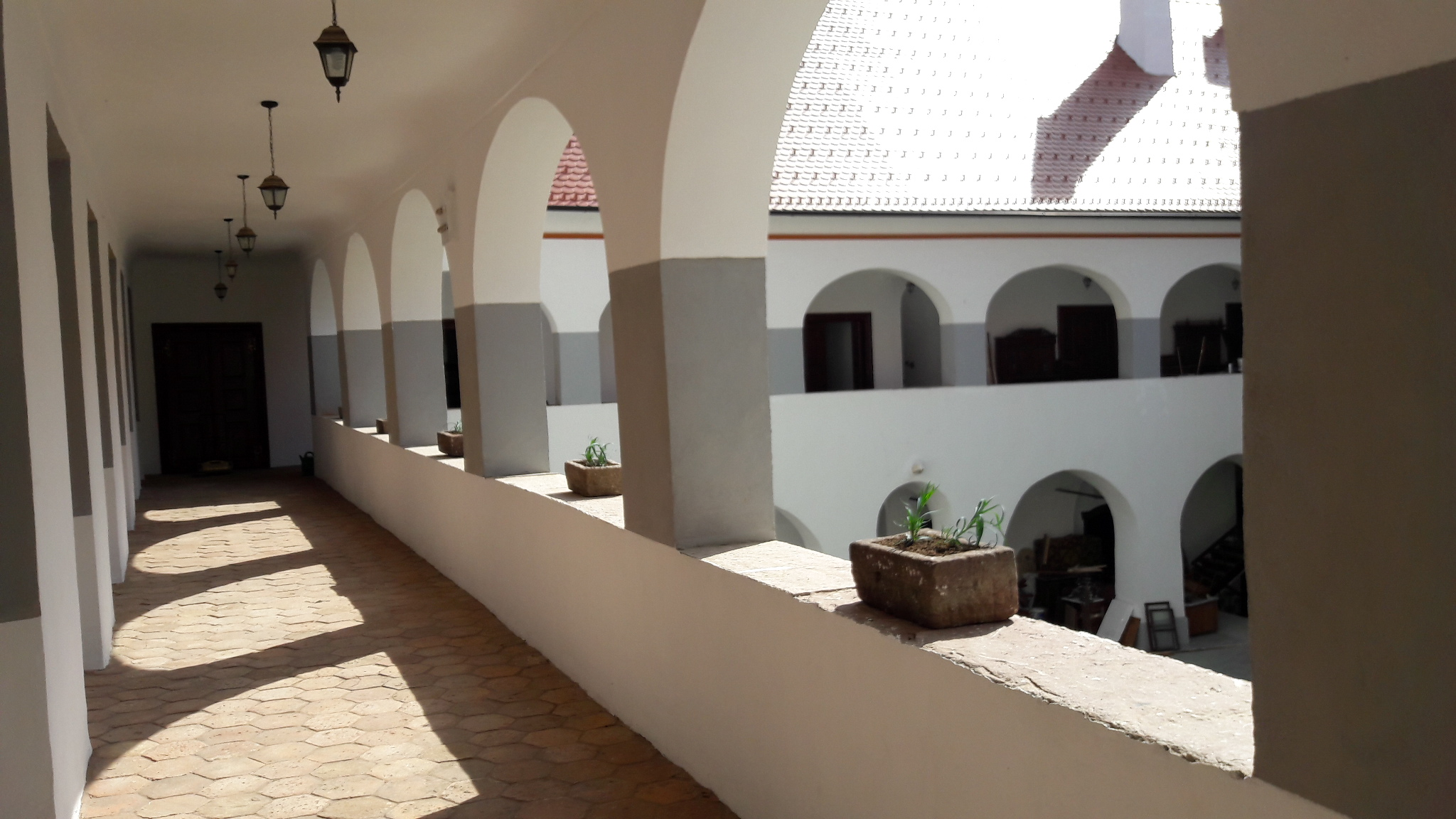 Atrium of Grad Raka